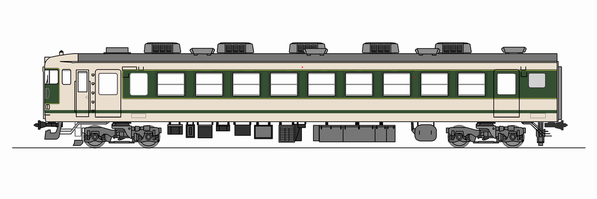 The side view of the EMU series 165 of JNR "Akakura" Color 5th or subsequent ones formation.